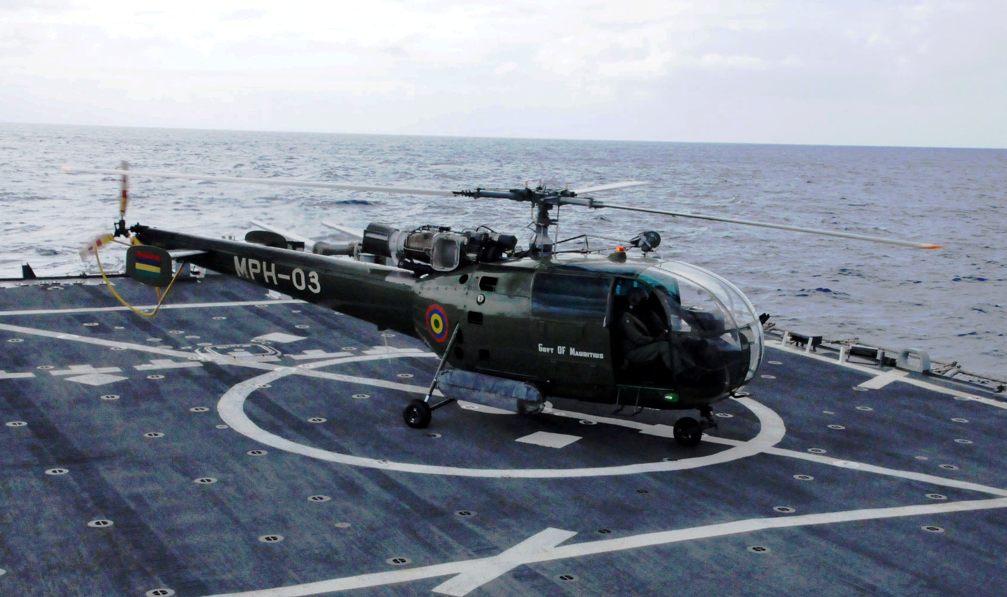 A Mauritius National Coast Guard Alouette-class III helicopter lands aboard the guided-missile destroyer USS Arleigh Burke (DDG 51) during flight operations training.